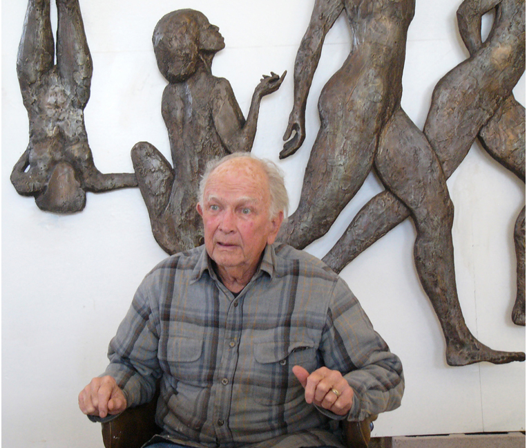 John Henry Waddell's (in 2007) at his studio in Cornville, Arizona